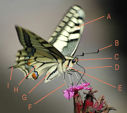 Butterfly with description A - ForewingB - AntennaC - Compound eyeD - Proboscis E - ThoraxF - LegG - AbdomenH - HindwingI - «tail»